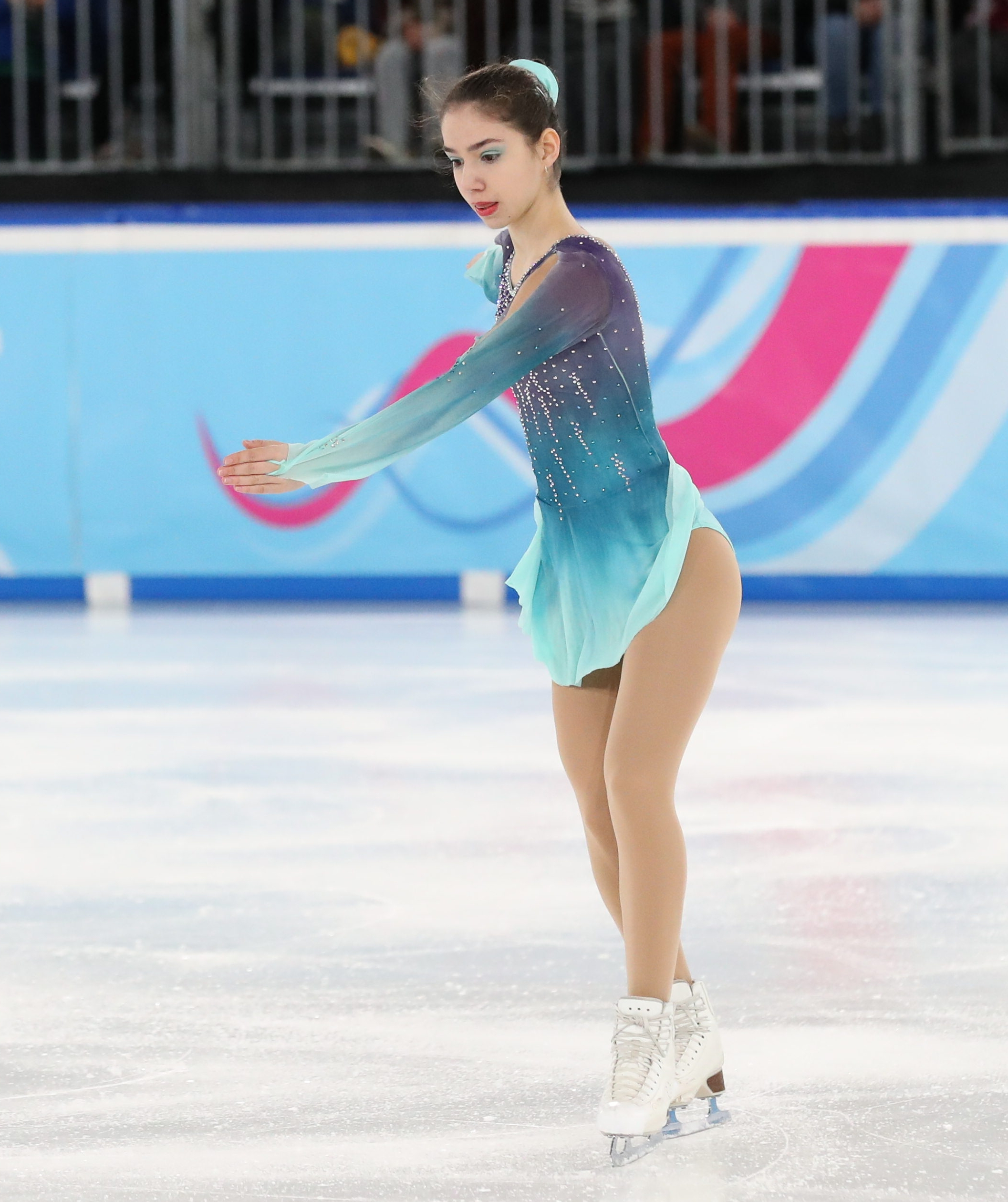 Women Single Figure Skating Short Program at the 2020 Winter Youth Olympics in Lausanne